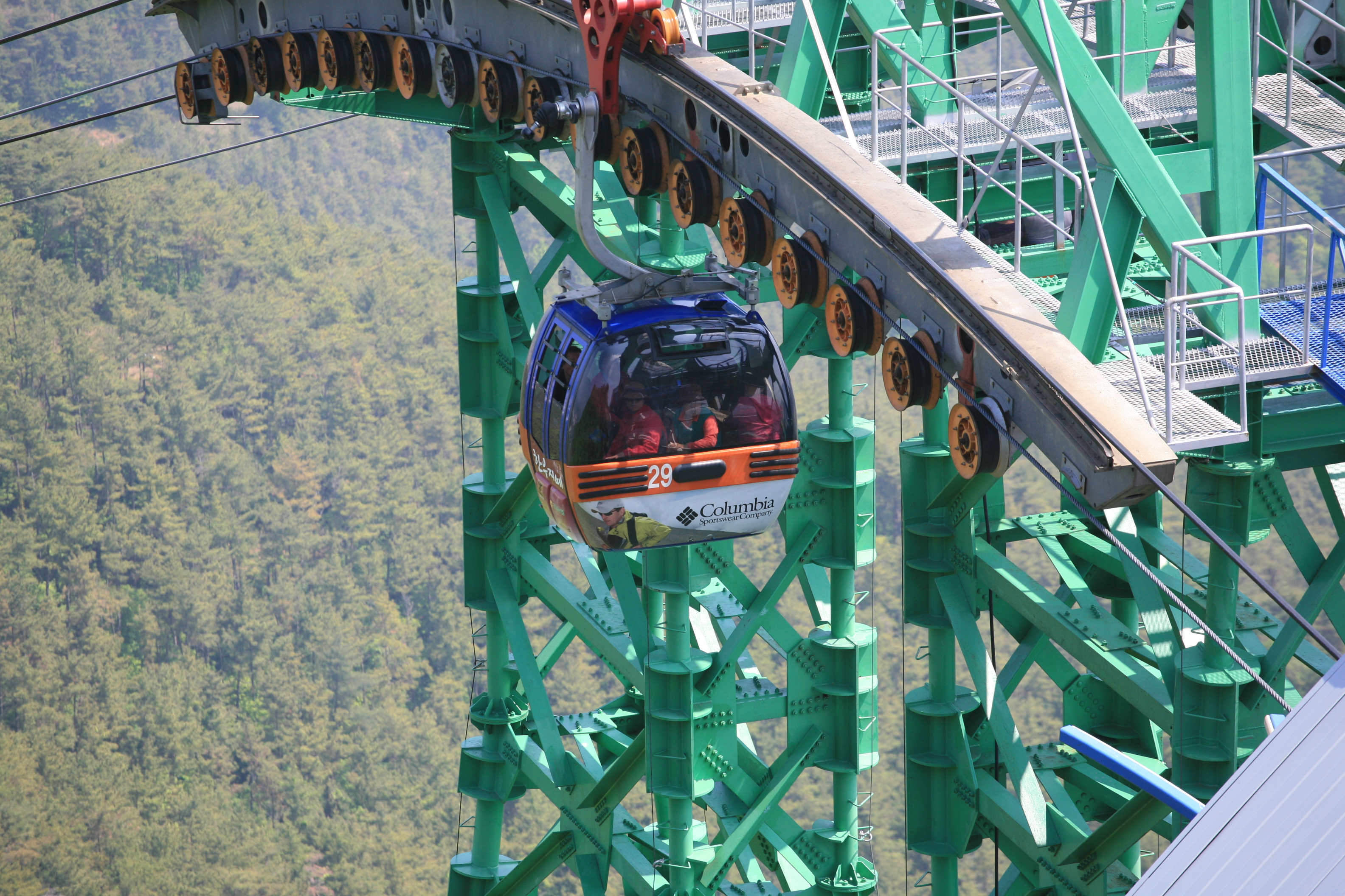 View of Hallyeo Waterway Observation Cable Car in Tongyeong, South Gyeongsang province, South Korea